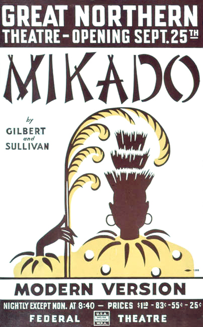 Poster for the opening of the original Chicago production of The Swing Mikado